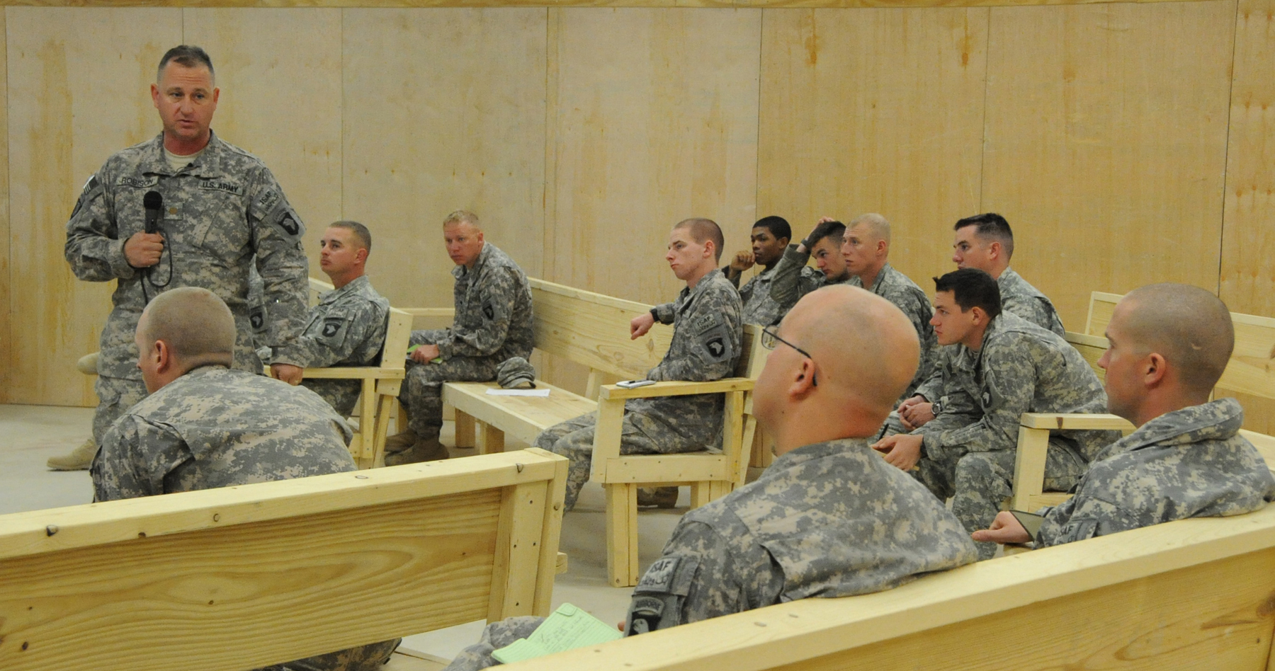 U.S. Army Chaplain Maj. Randall H. Robison of Grand Prairie, Texas, brigade chaplain with 4th Brigade Combat Team, 101st Airborne Division, talks to soldiers about having the spiritual strength to overcome adversity and stress and maintaining the ability to “come back stronger” at Forward Operating Base Sharana, Jan. 9. The class is a part of the Toccoa Tough resiliency training hosted by the Task Force Currahee resiliency team to give soldiers the opportunity to take a break from their daily routine and help them refocus on their physical, mental, spiritual and emotional health.